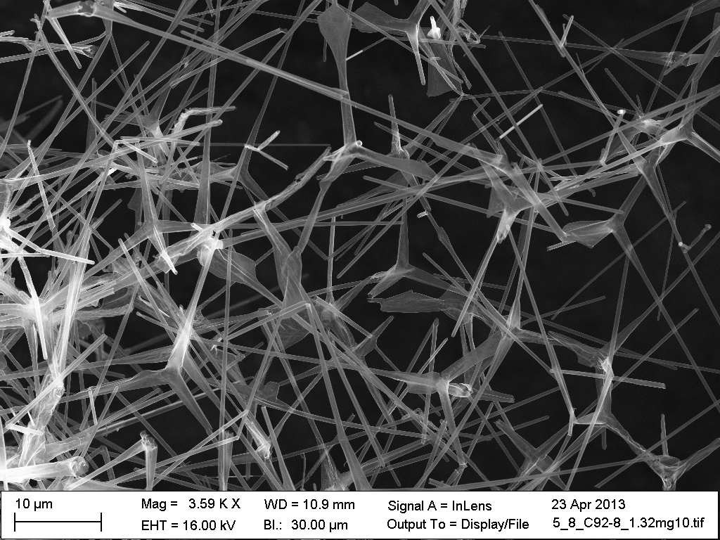 A SEM image of the Aerographite network morphology. With best regards from the Hamburg University of Technology and the University Kiel.